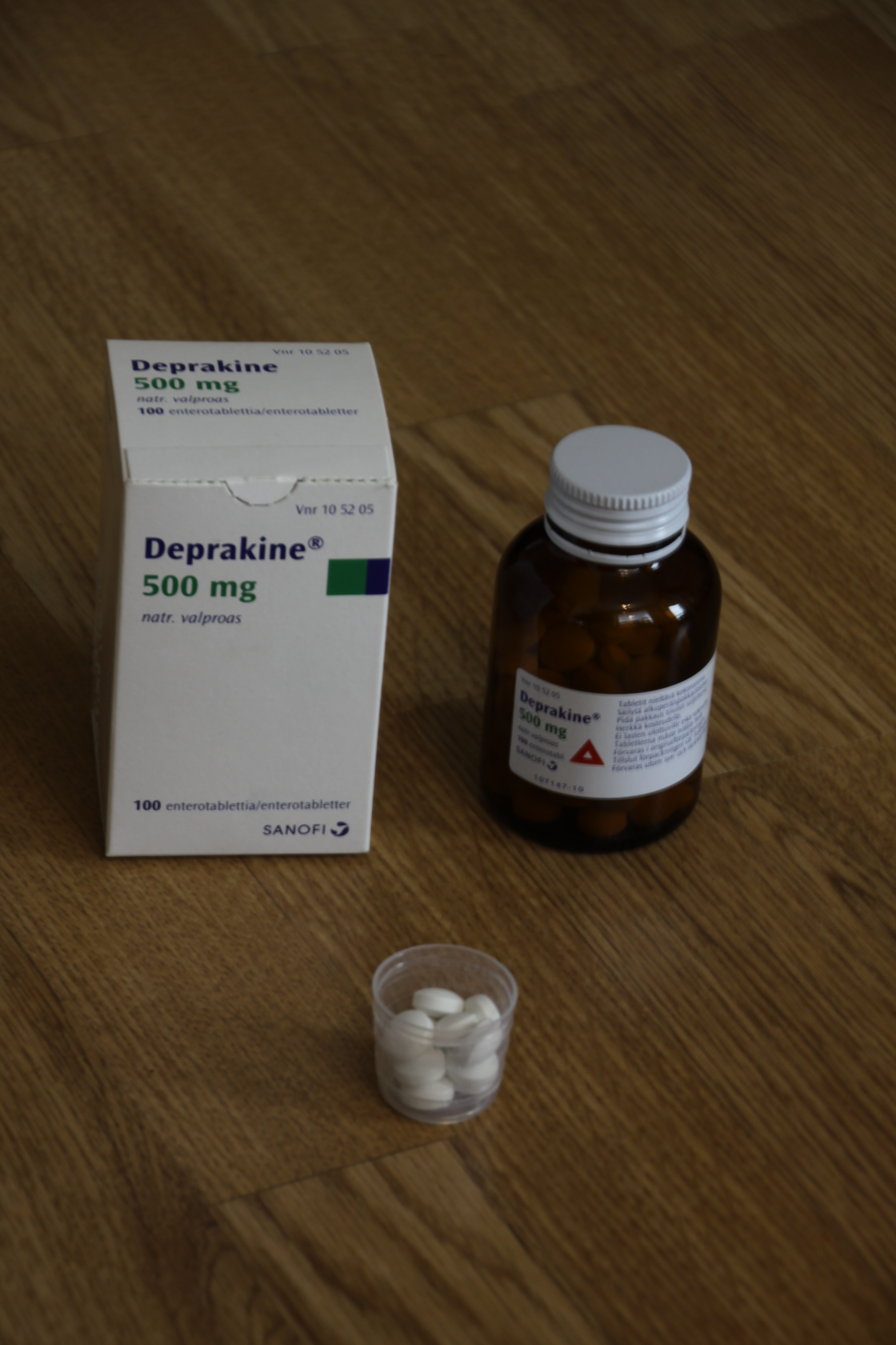 Deprakine 500 mg -(sodium) valproate product.